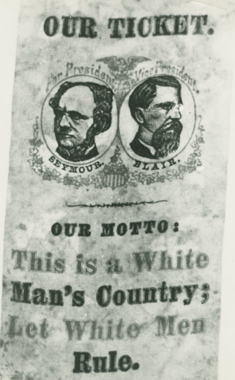 Our ticket, Our Motto: This is a White Man's Country; Let White Men Rule." Campaign badge supporting Horatio Seymour and Francis Blair, Democratic candidates for President and Vice-President of the Unites States, 1868 -- NY Public Library, Schomberg Center